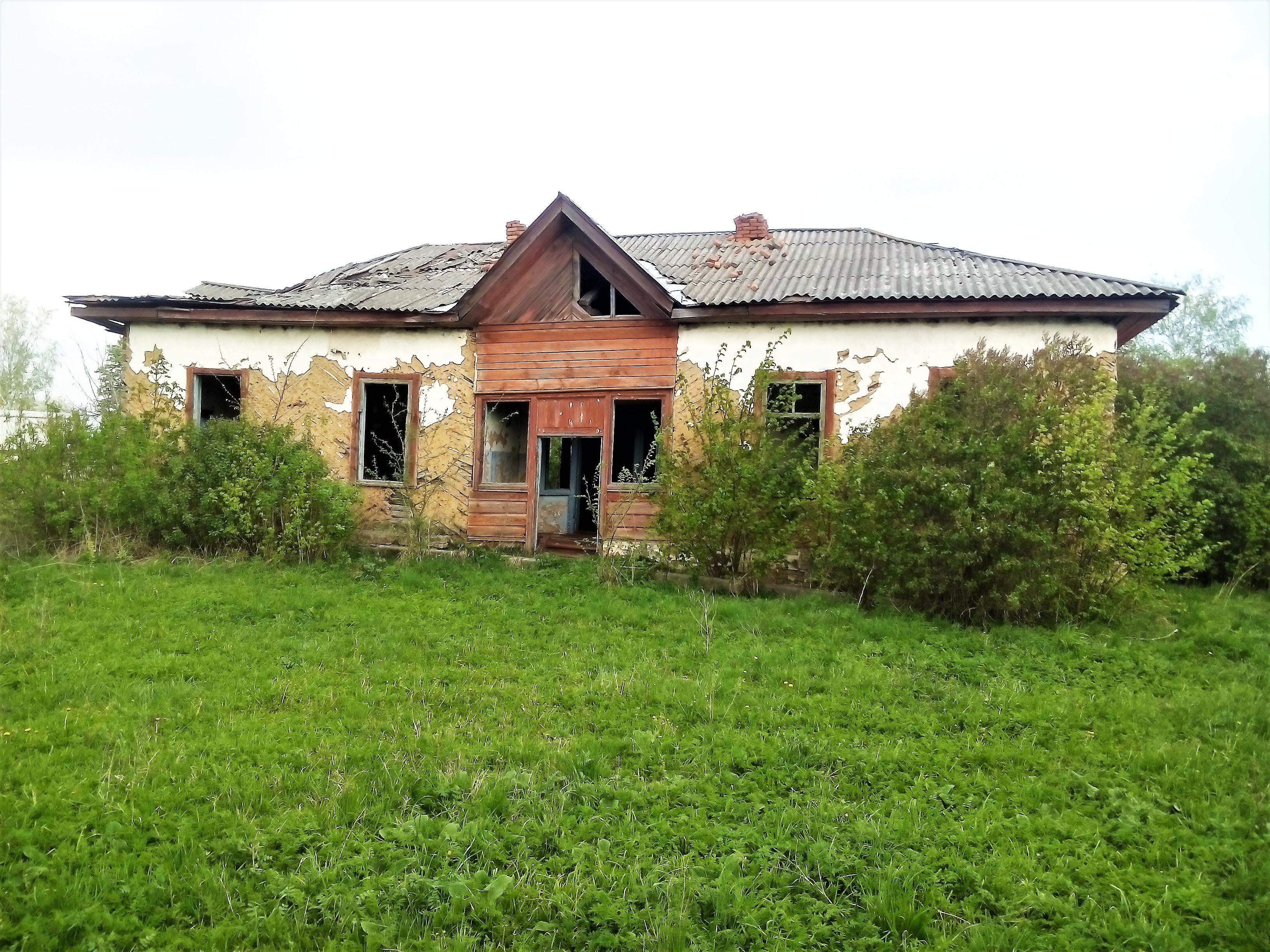 in v.Tovstolis, Chernihiv Raion, Chernihiv Oblast, Ukraine